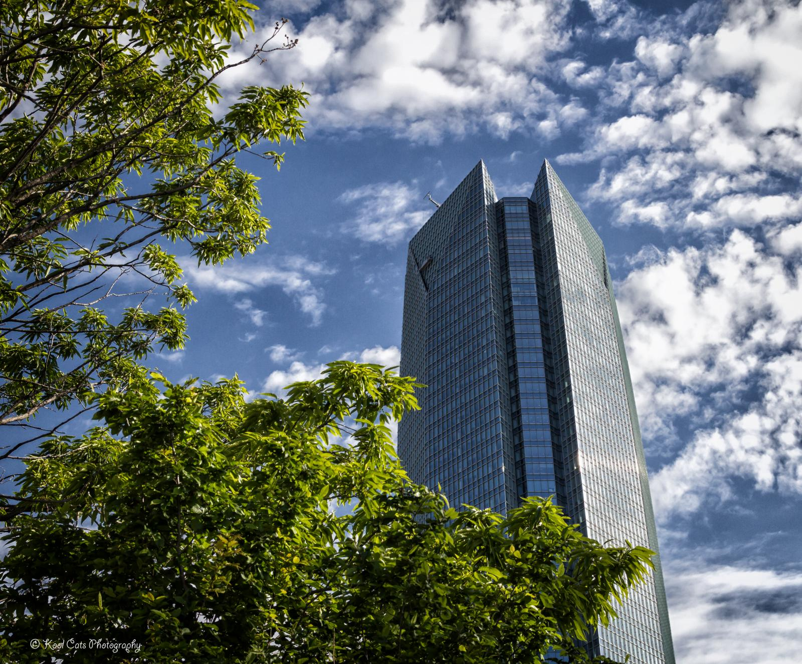 Downtown Oklahoma City. The Devon Tower.